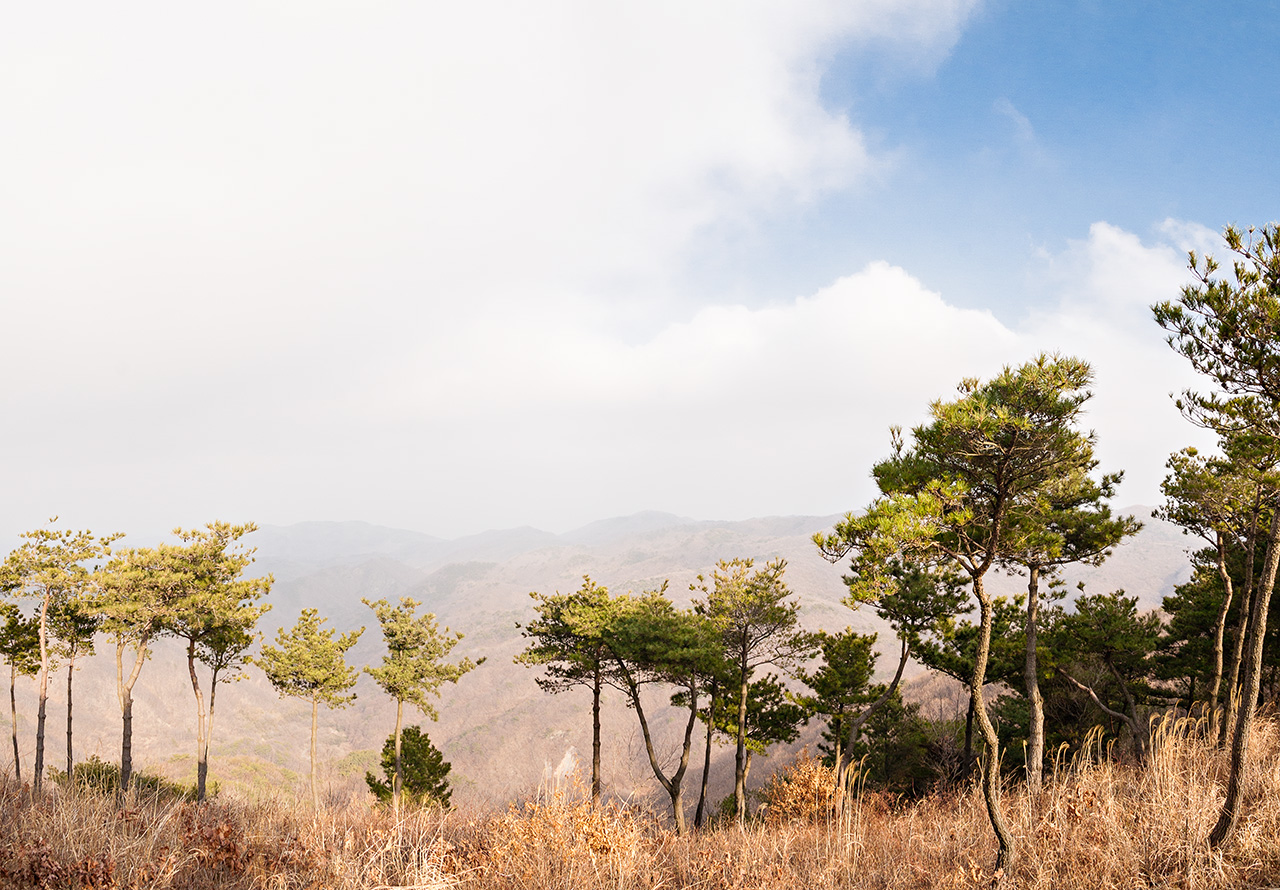 View from the top of Dongdaesan Mountain in Ulsan, South Korea looking away from the city